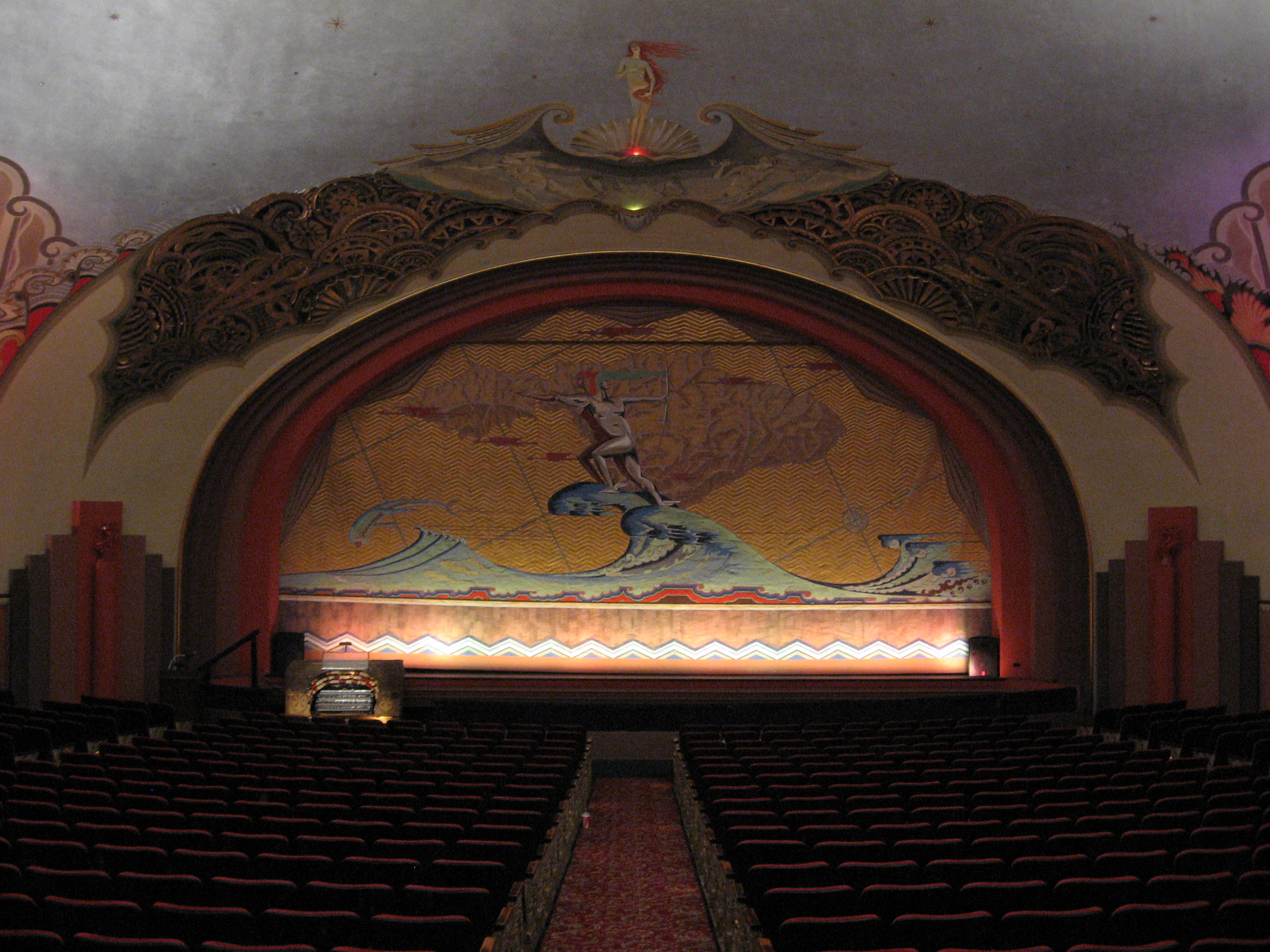 Stage of the Avalon Theater cinema — in the Catalina Casino, Catalina Island. In Category:Los Angeles County, California.